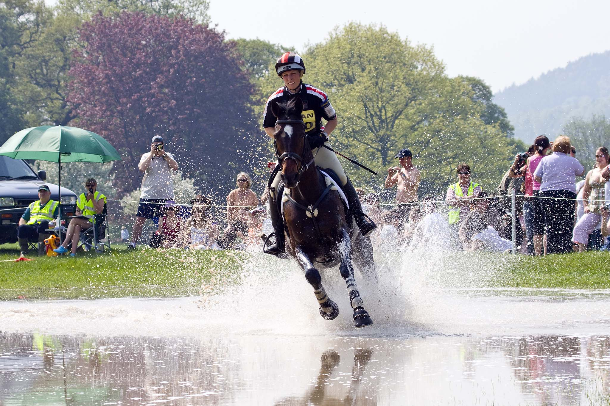 Chatsworth International Horse Trials 2008